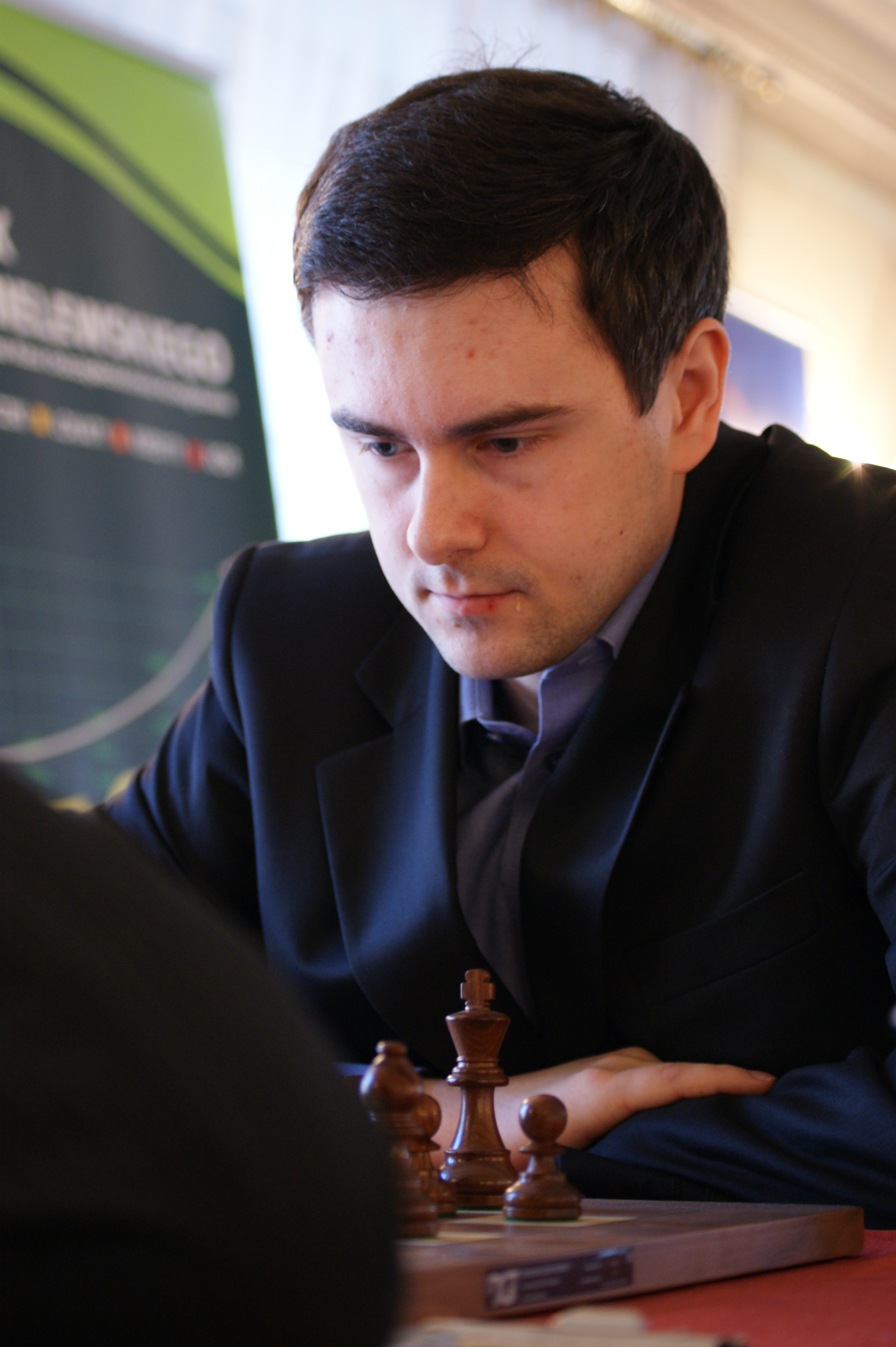 Bartlomiej Macieja - 5th round of 2nd International Grandmasters' Tournament - The Lublin Union Memorial